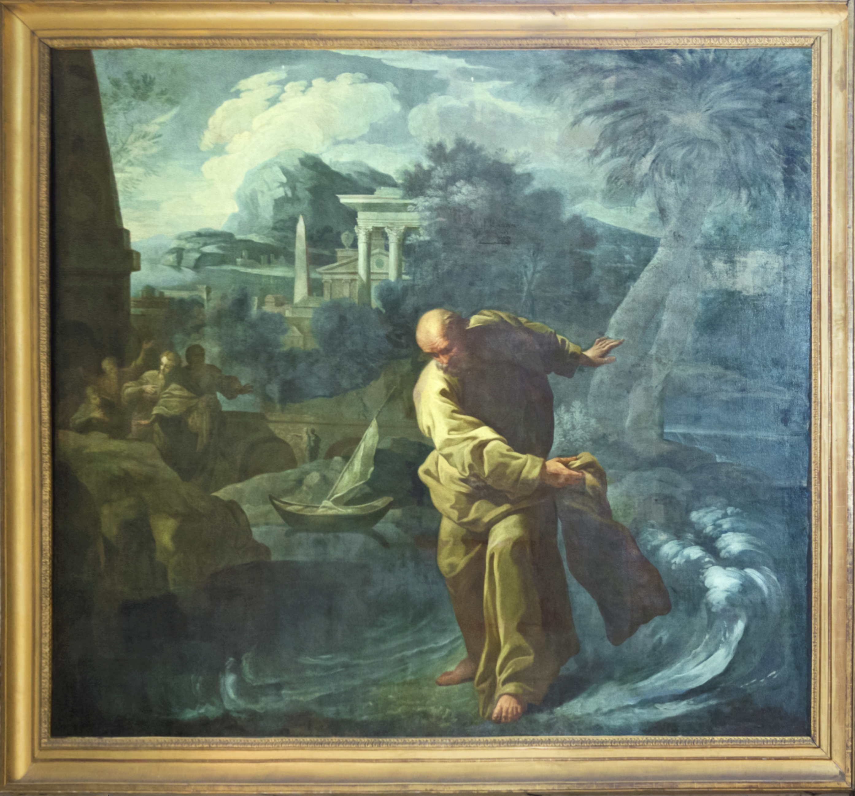 Carmelite chapel - "Elisha dividing the waters of Jordan with Elijah's mantle" by Jean-Baptiste Despax.